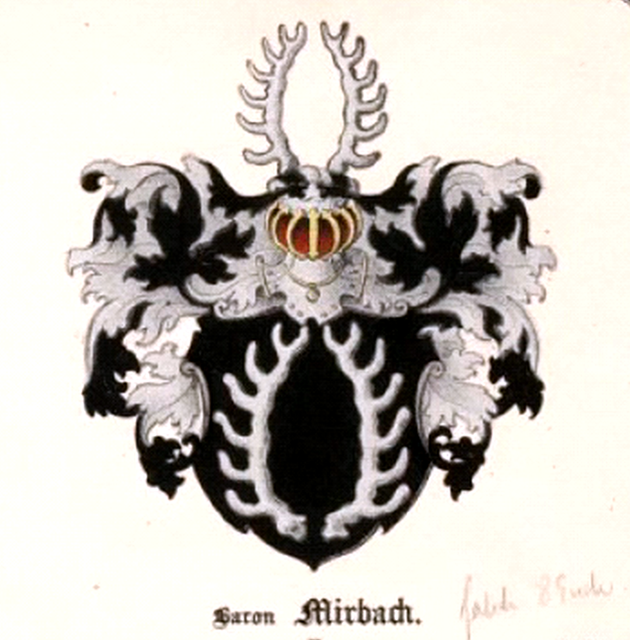 Coat of Arms of Baron Mirbach family